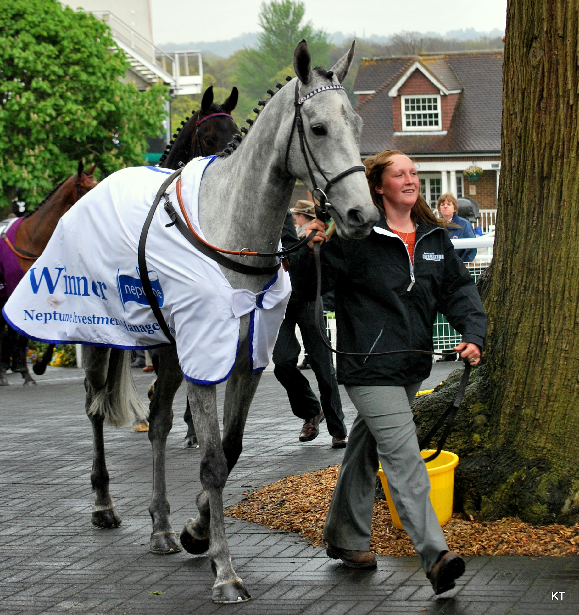 Simonsig after the Champions Parade at Sandown on bet365 Gold Cup Day, April 28th 2012.